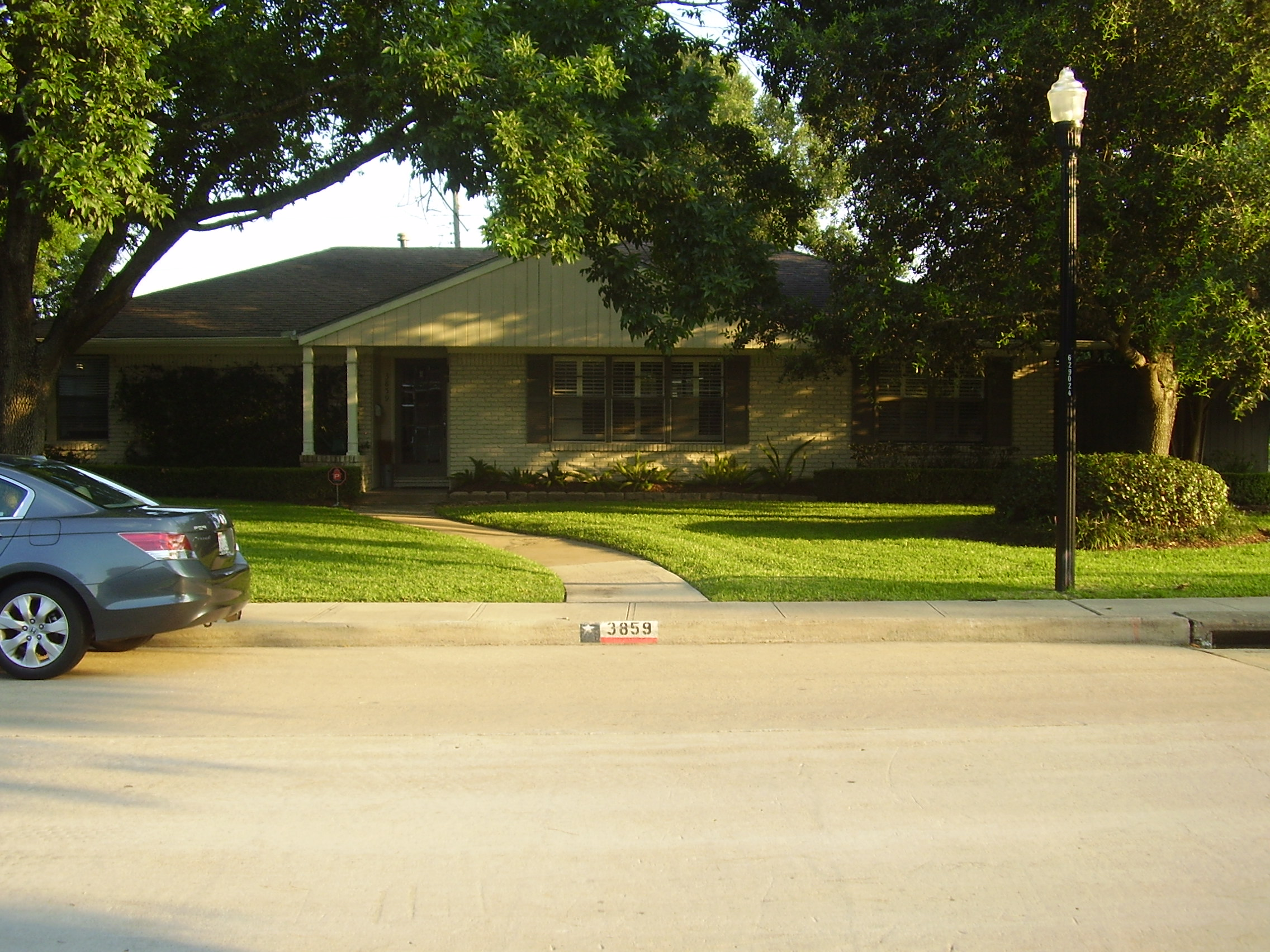 3859 Tartan Lane, the site of the murder of Gloria Pastor on September 19, 1988. The murder resulted in the clean-up of the nearby Link Valley area.